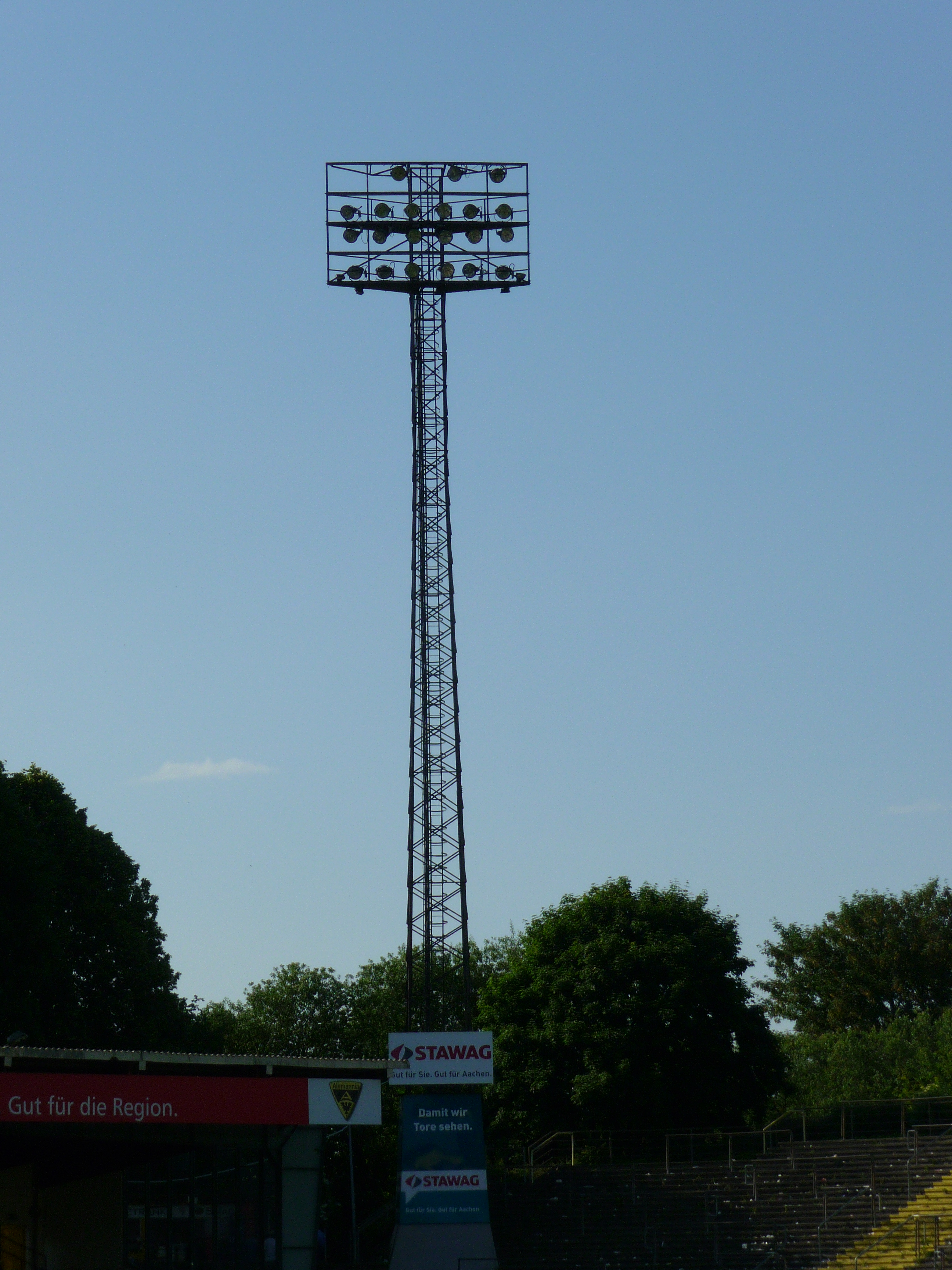 Tivoli, Aachen